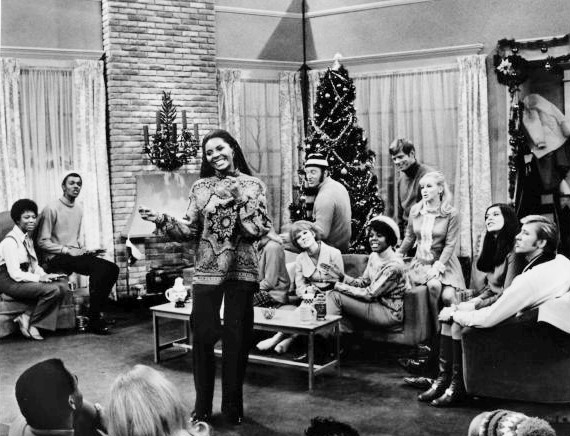 Photo from the short-lived comedy series, That's Life. Pictured are Leslie Uggams, Robert Morse, E. J. Peaker and the vocal group, the Doodletown Pipers.